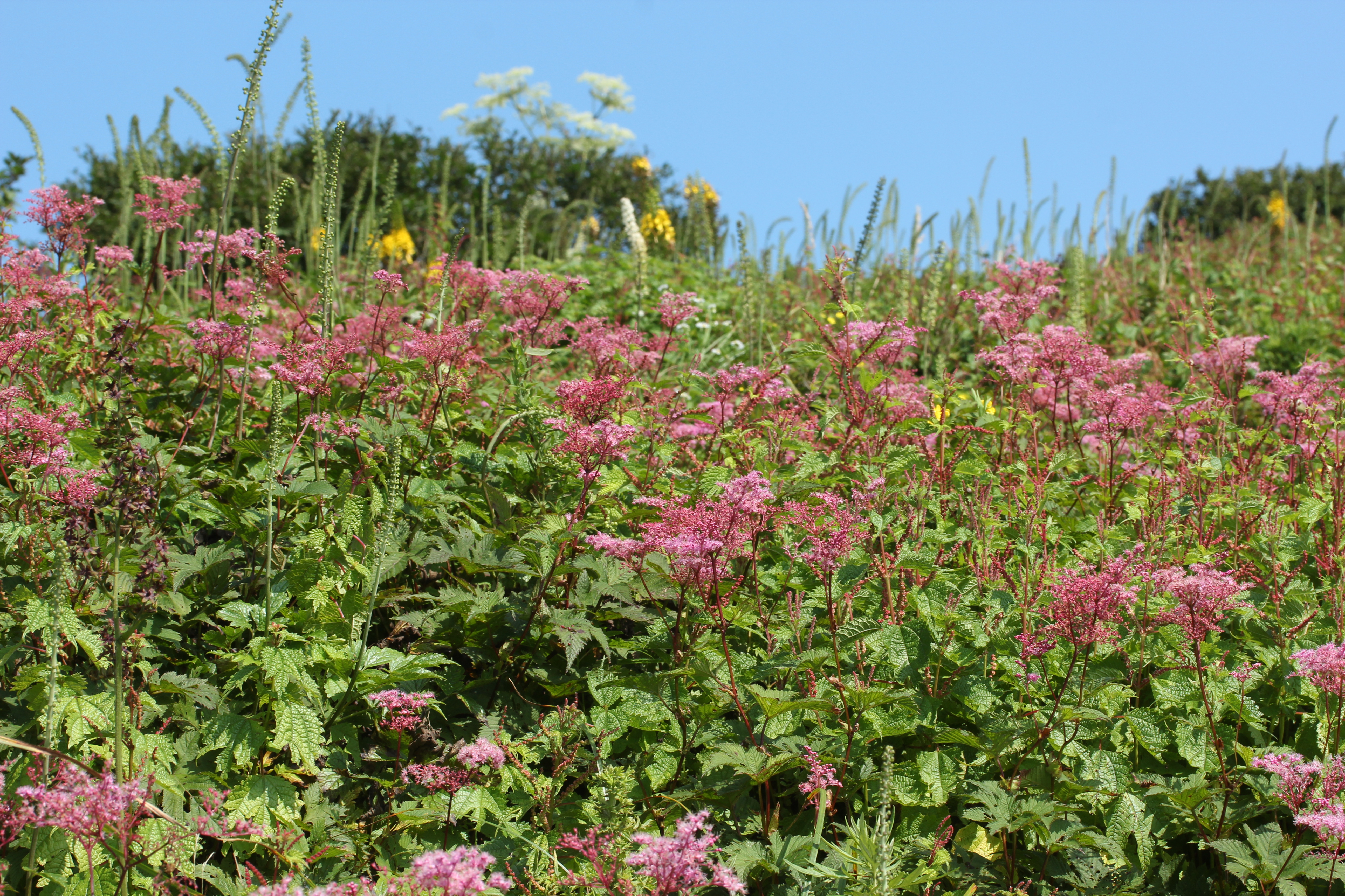 Filipendula multijuga in Mount Ibuki, Maibara, Shiga Prefecture, Japan.